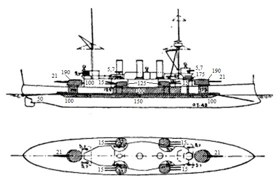 Armour and weapons of the Swedish coastal defence ship HMS Oscar II.